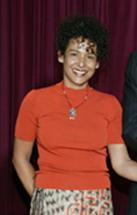 Journalist Marianne Pearl, cropped from larger photo